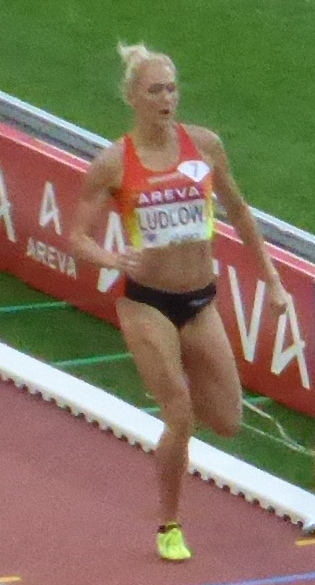 Molly Ludlow at the 2015 Meeting Areva, Stade de France, Paris.